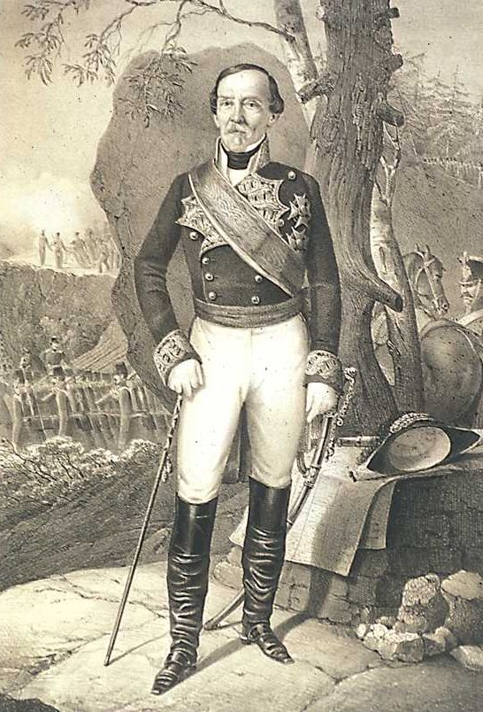 Field M. Demetrio O'Daly; dated: 1854